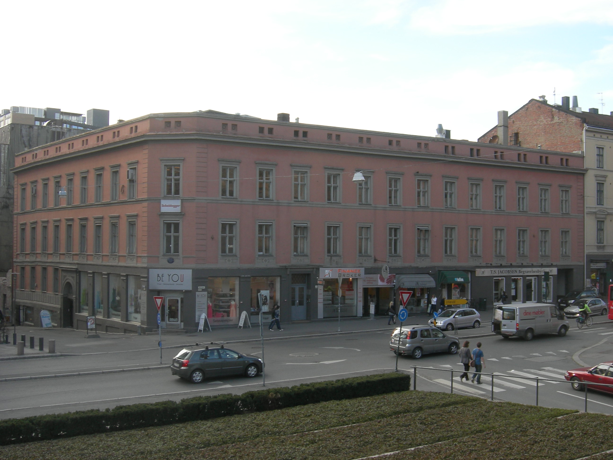 Building Maltheby, 1844, Akersgata, Oslo, Norway